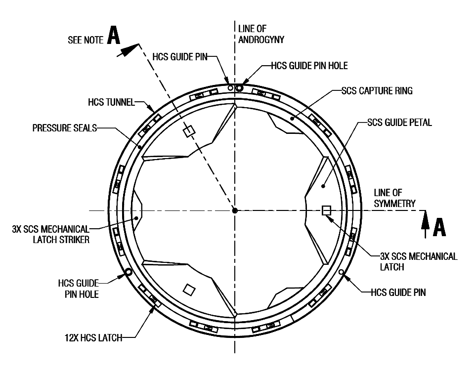 The drawings are from the International Docking System Standard which is in the public domain.